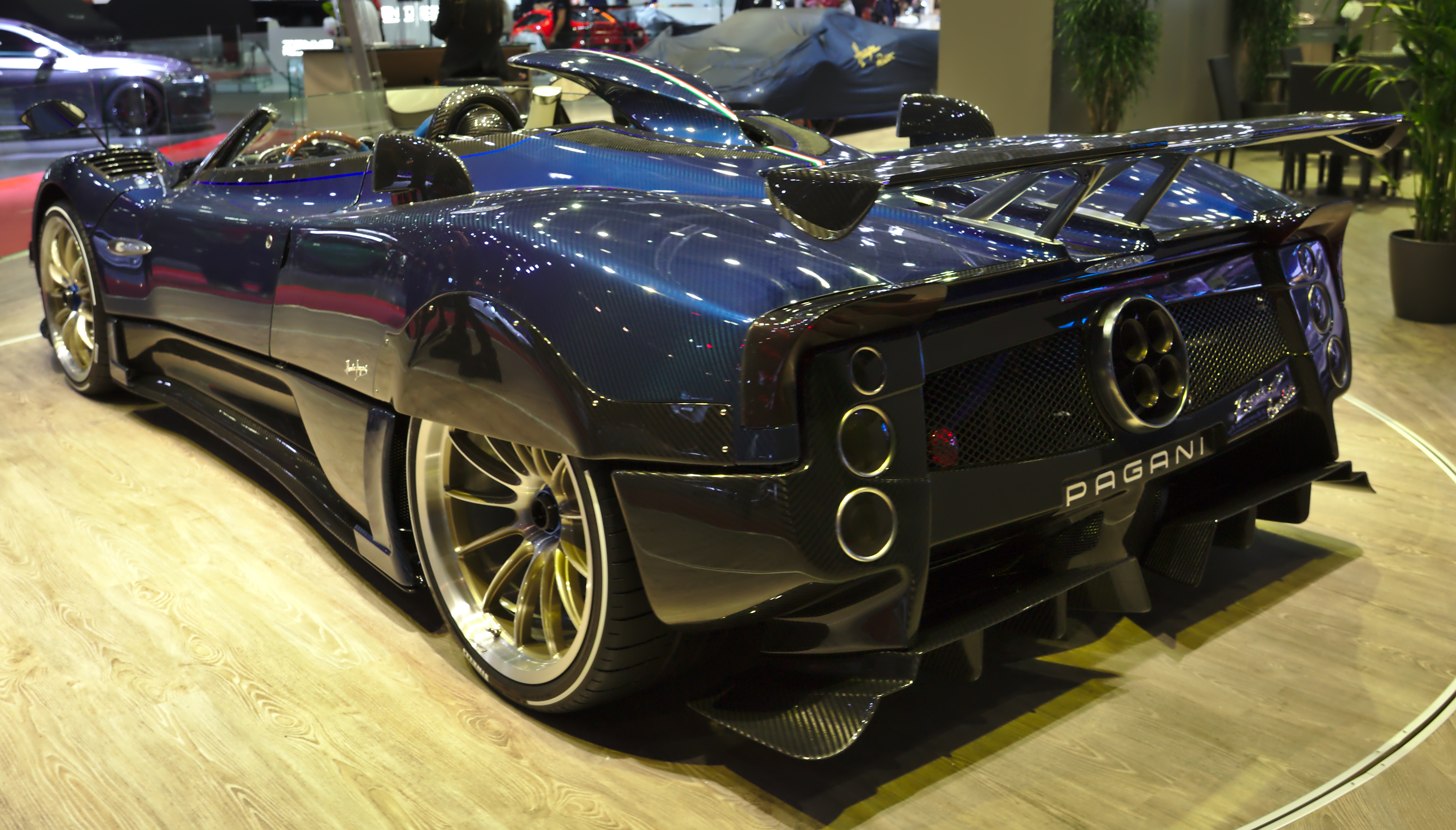 Pagani Zonda HP Barchetta at Geneva Motorshow 2018